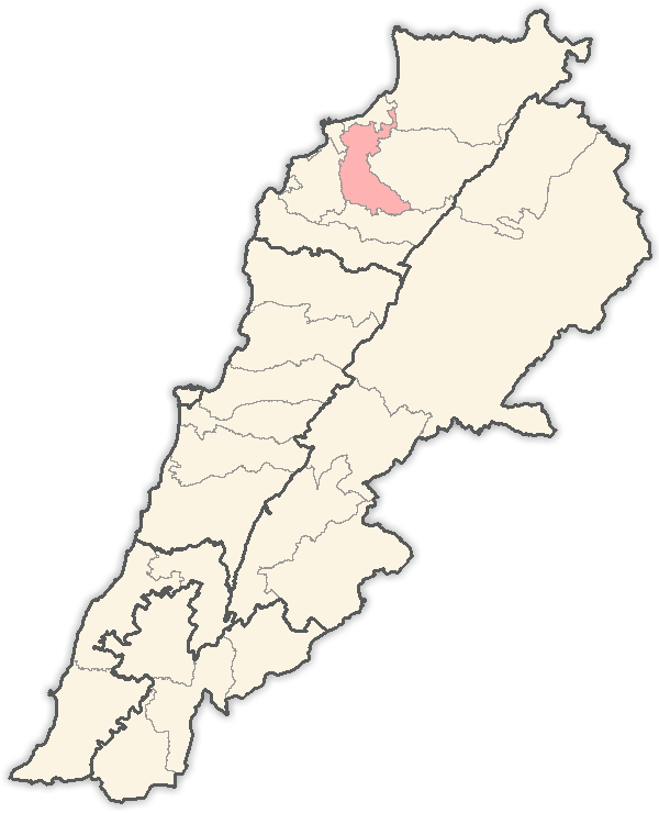 Map of districts in Lebanon, highlighting the Zgharta District